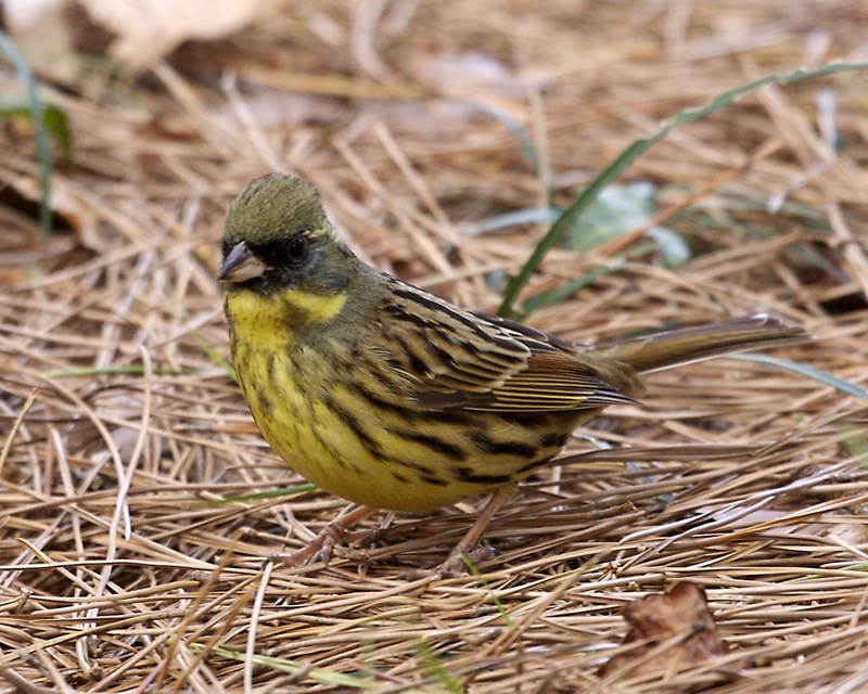 Black-faced Bunting Emberiza spodocephala Emberiza spodocephala personata - Male Kyoto, Japan 20 March 2007 _Q0S3614.jpg